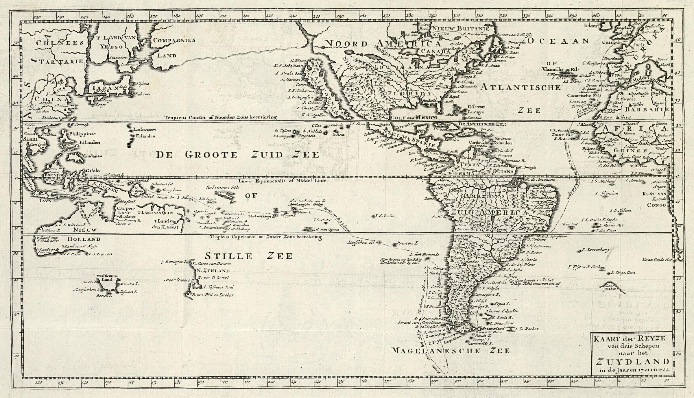 Map of the voyage to the 'South Land' by Jacob Roggeveen. Kaart der Reyze van drie Schepen naar het Zuydland in de Jaren 1721 en 1722. Roggeveen's route is marked on the chart. He discovered Easter Island by accident.